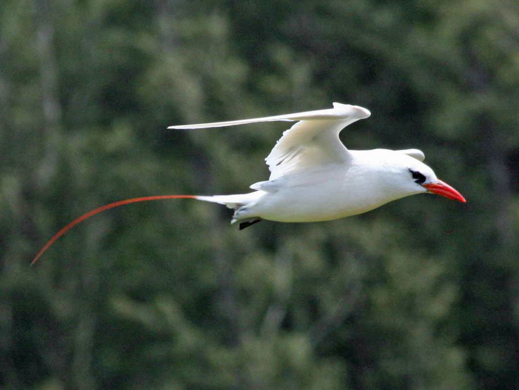 Red-billed Tropicbird (Phaethon rubricauda) - Kilauea Point, Kauai, Hawaii )